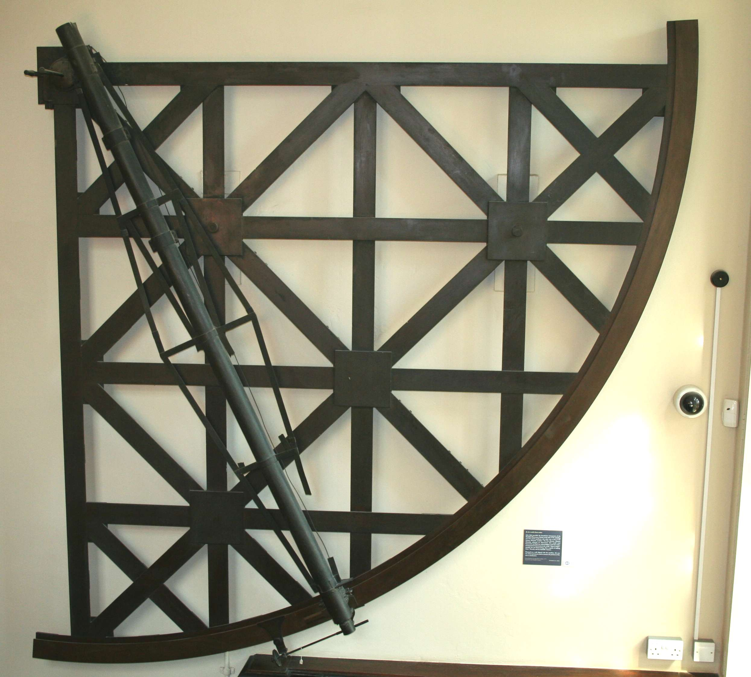 Mural Quadrant, by John Bird, London, 1773, at the Museum of the History of Science, University of Oxford. John Bird provided the foundation instruments of the Radcliffe Observatory, Oxford, in early 1779, including two 8 ft mural quadrants. One can be seen in the Museum of the History of Science at the University of Oxford. The other is now in the Science Museum, London. The first director, Thomas Hornsby, planned an observatory that would rival Greenwich and Bird was acknowledged as the best maker of astronomical instruments in the world: "There is unquestionabley but one Person living, who is capable of making them," Hornsby told the Radcliffe Trustees. Mounted on a wall aligned with the meridian, this was one of the instruments used to measure the position of the stars in declination.